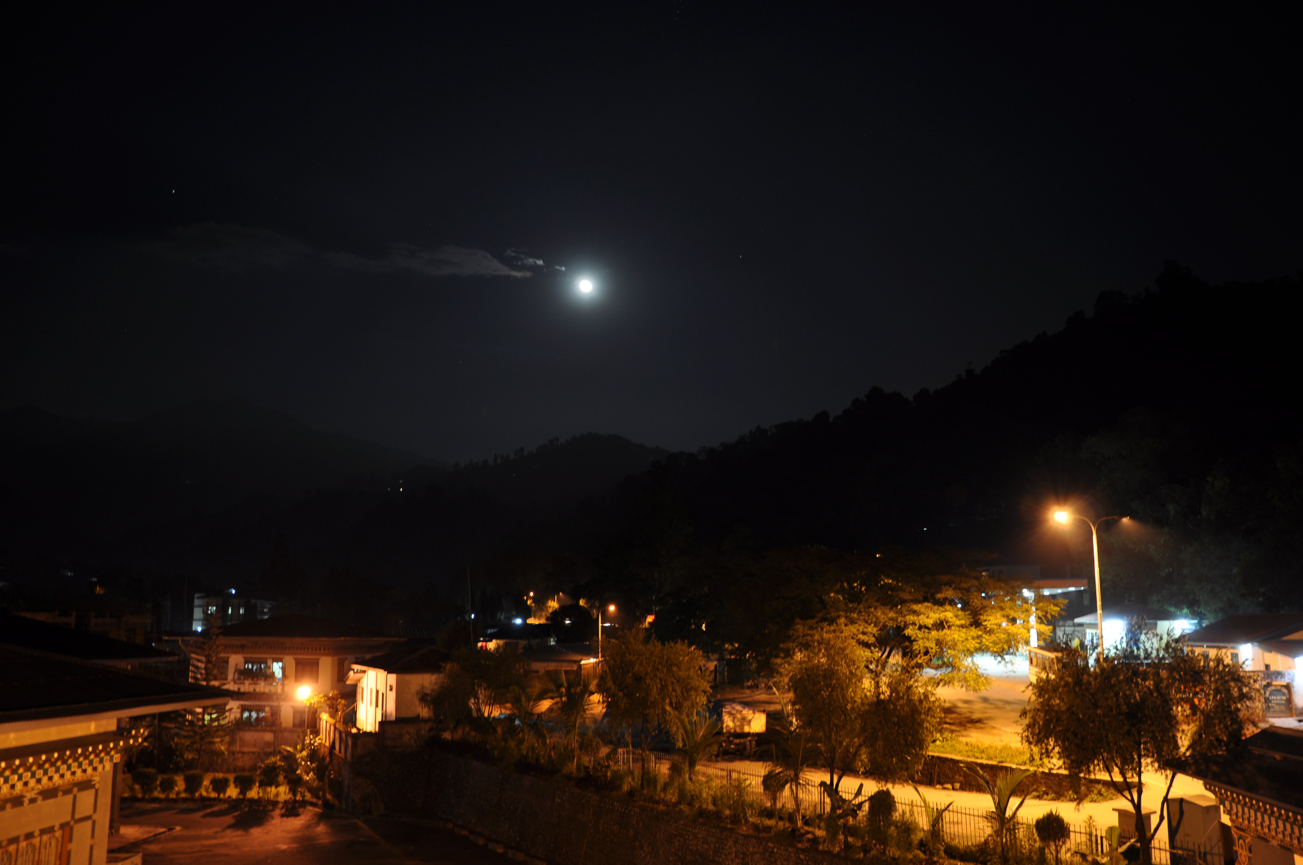 Moonlight in the relatively unknown country, Bhutan. Photo taken in Phuntsholing, a border town between Bhutan and India.